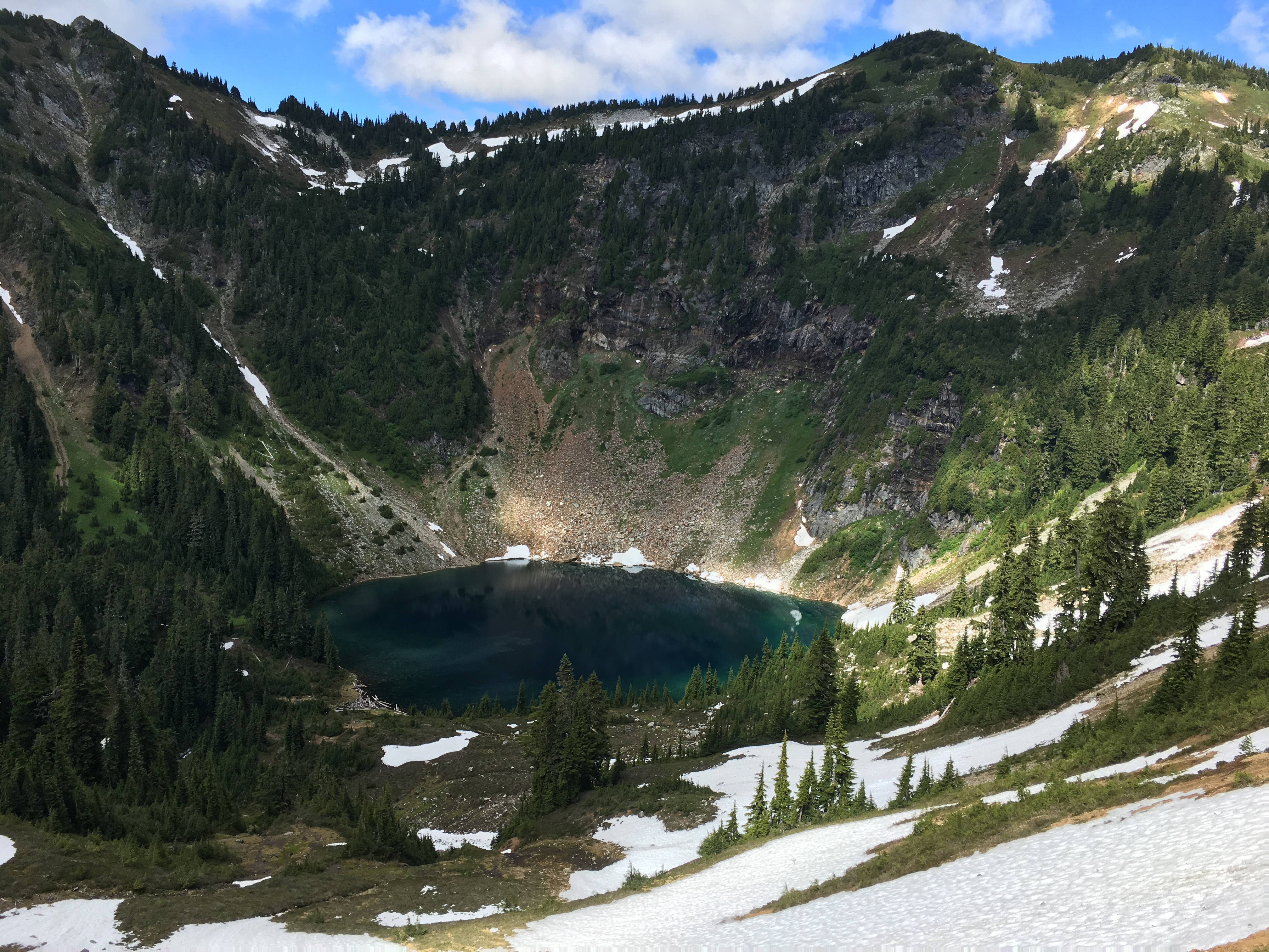 Photo taken from the ridge above the lake.